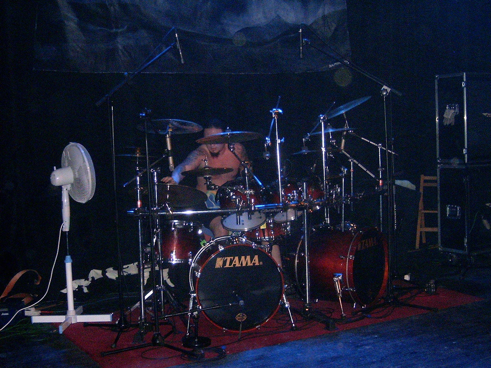 Dariusz "Daray" Brzozowski from polish death metal band Vader playing live on tour in Poland